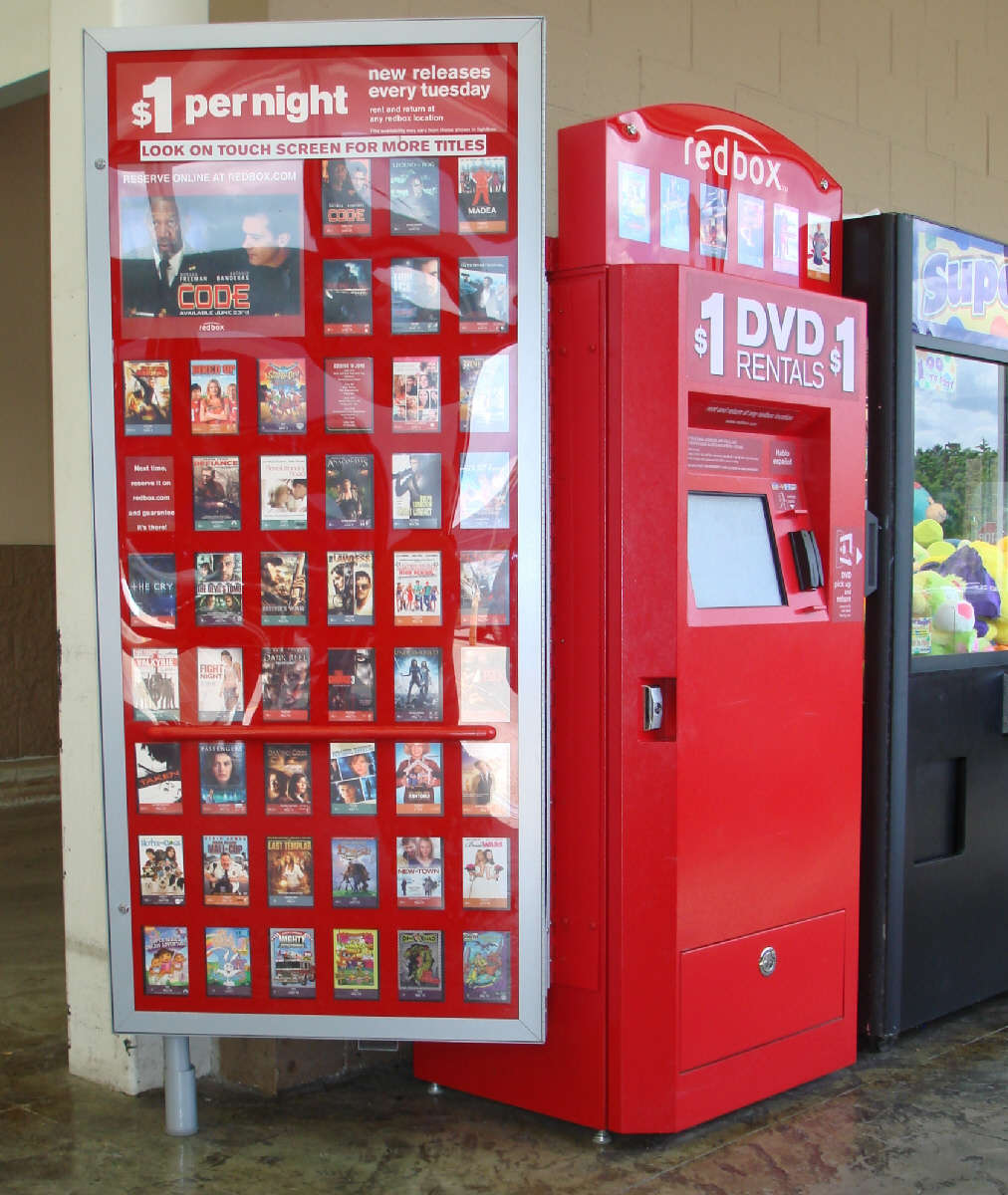 Red Box, Video Rental Automat, found in a Wal-Mart in New York State